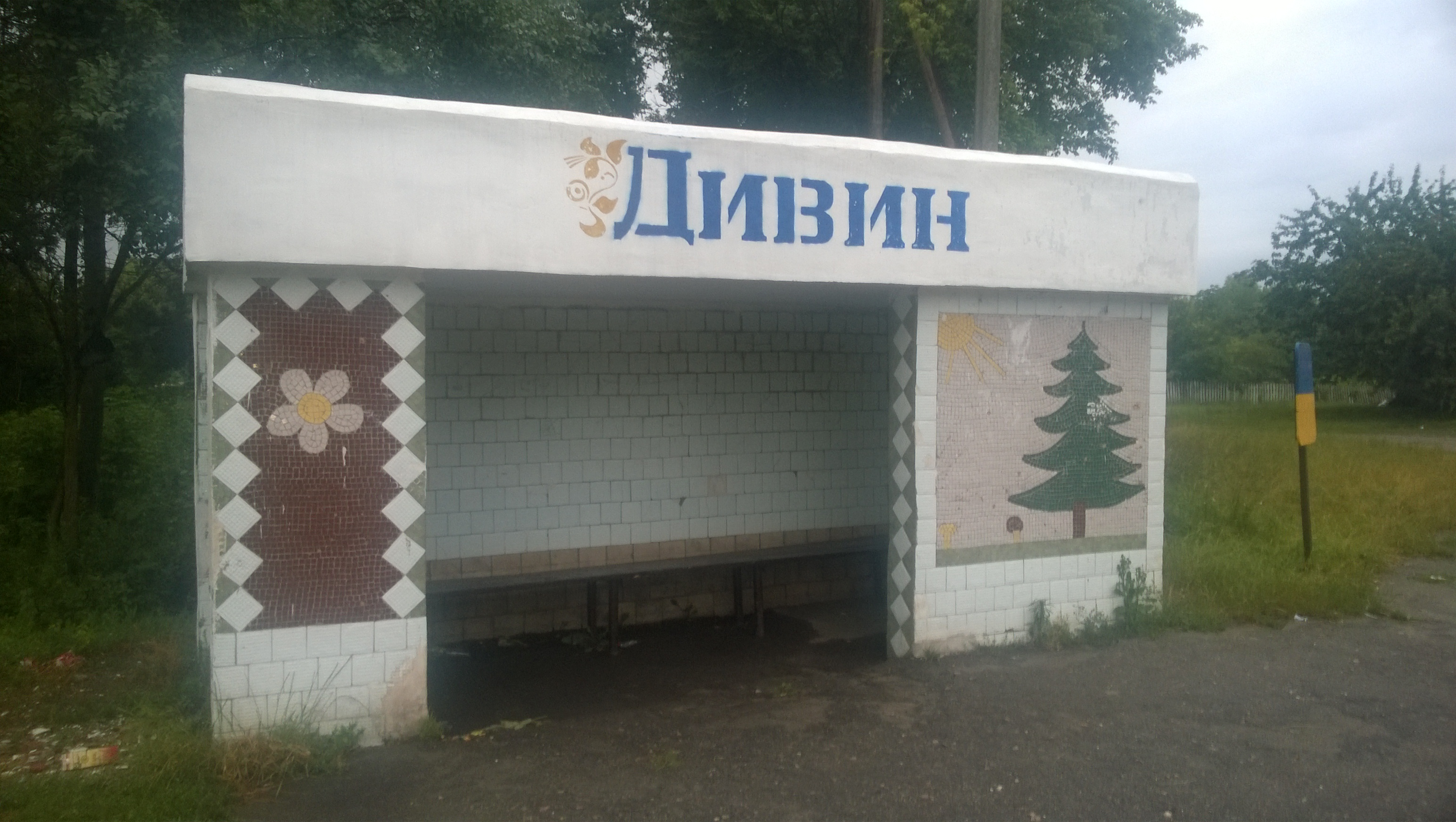 Bus stop